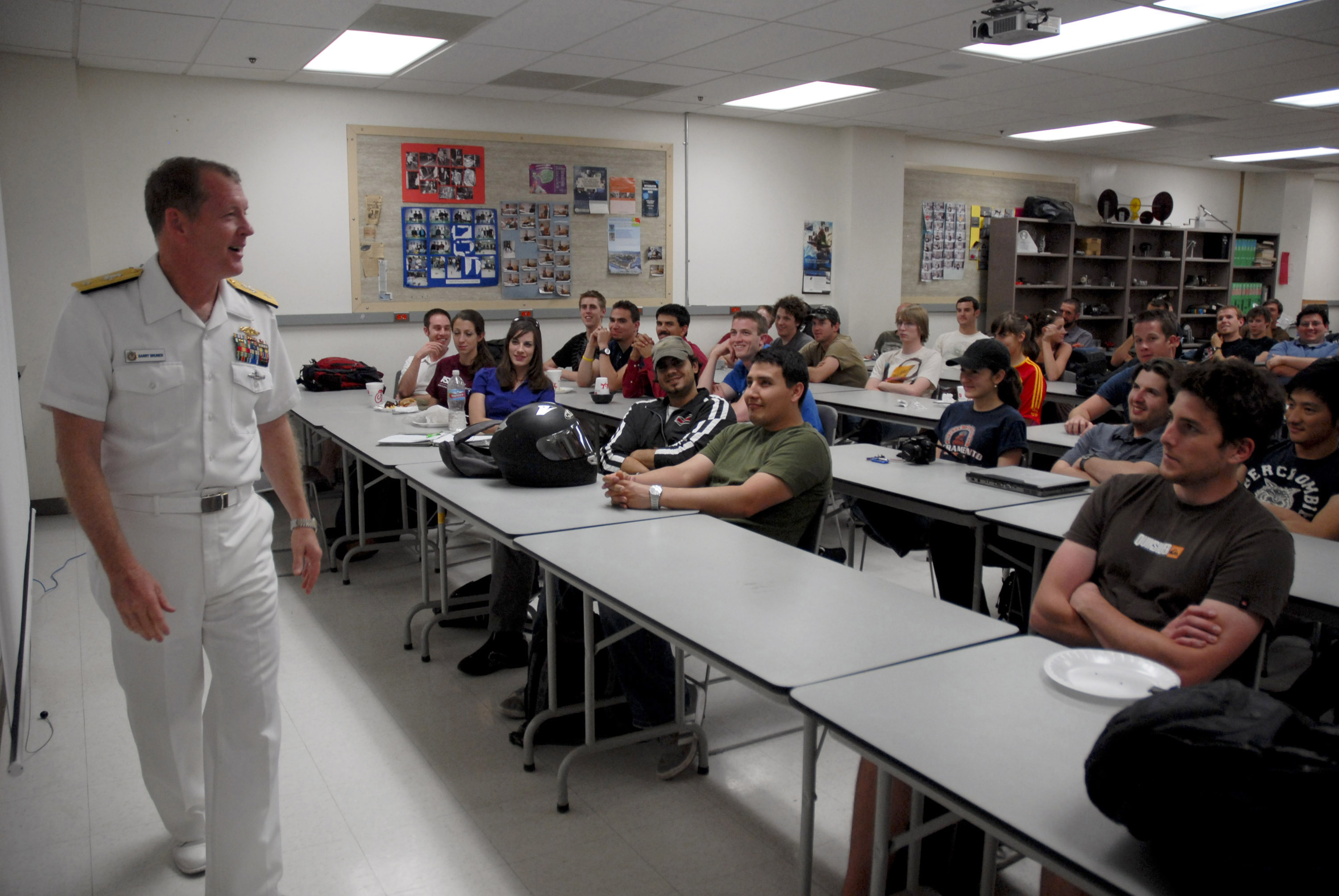 PHOENIX, Ariz. (March 29, 2010) Rear Adm. Barry Bruner, commander of Submarine Group 10, talks to engineering students at Arizona State University during Phoenix Navy Week. Phoenix is one of 20 Navy Weeks planned across America for 2010. Navy Weeks are designed to show Americans the investment they have made in their Navy and increase awareness in cities that do not have a significant Navy presence. (U.S. Navy photo by Mass Communication Specialist 2nd Class Kat Smith/Released)